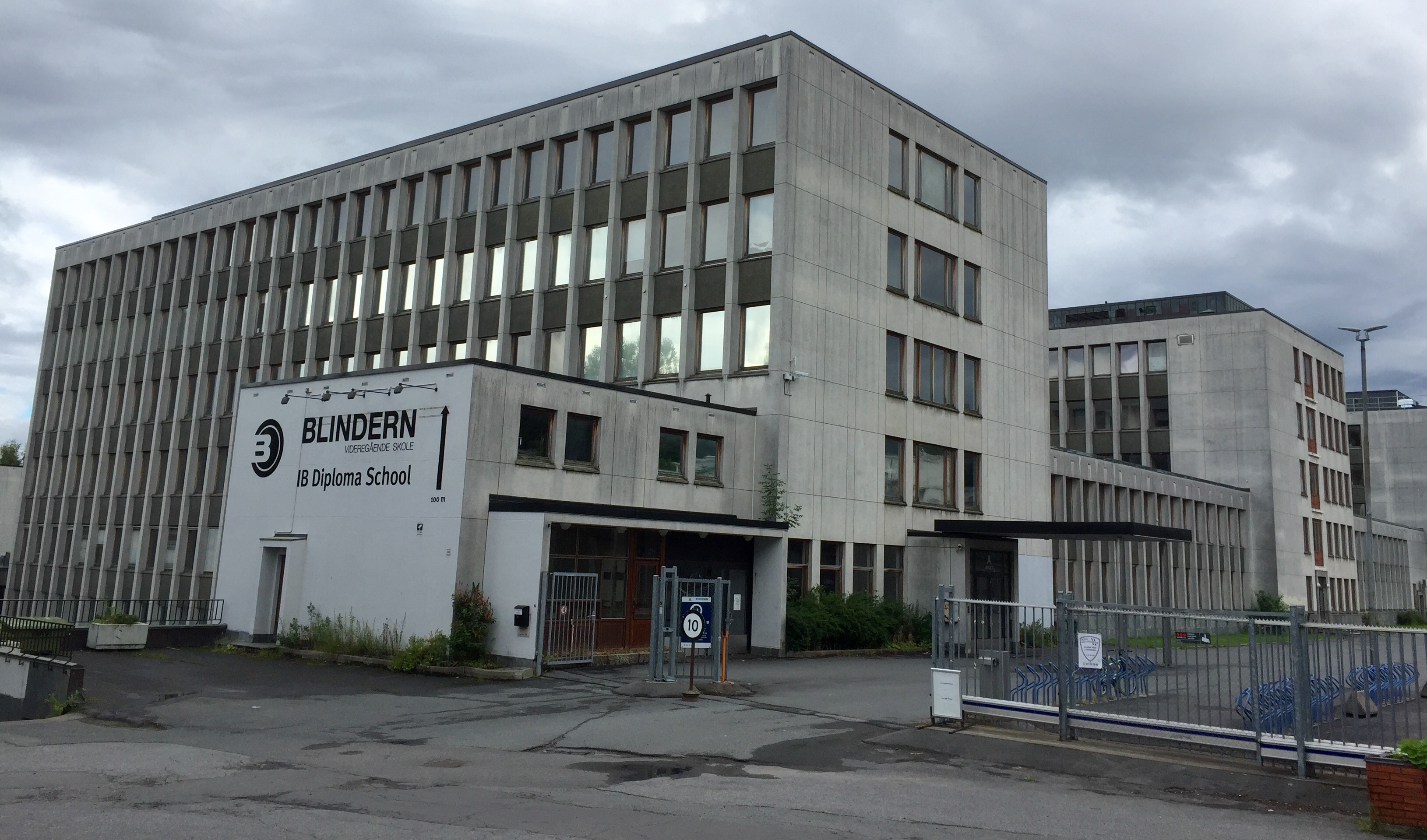 Blinderen Upper Secondary School in Oslo